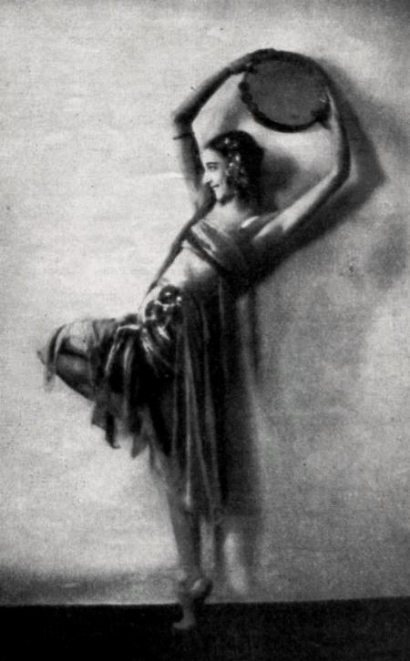 Rose Rolanda aka Rosa Rolanda in Irving Berlin's Music Box Revue (1921), on page 9 of the November 1921 The Tatler.